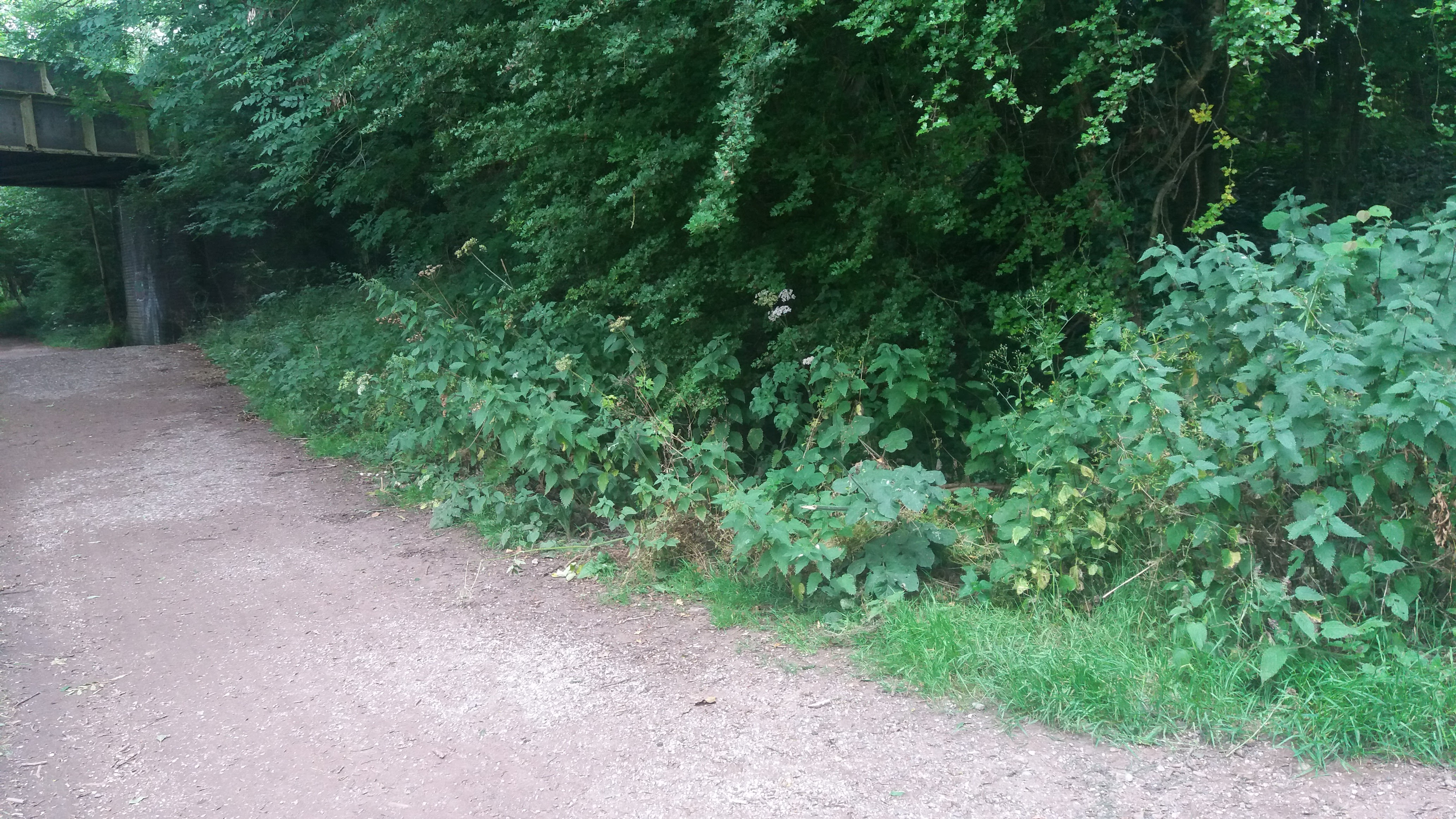 My own.